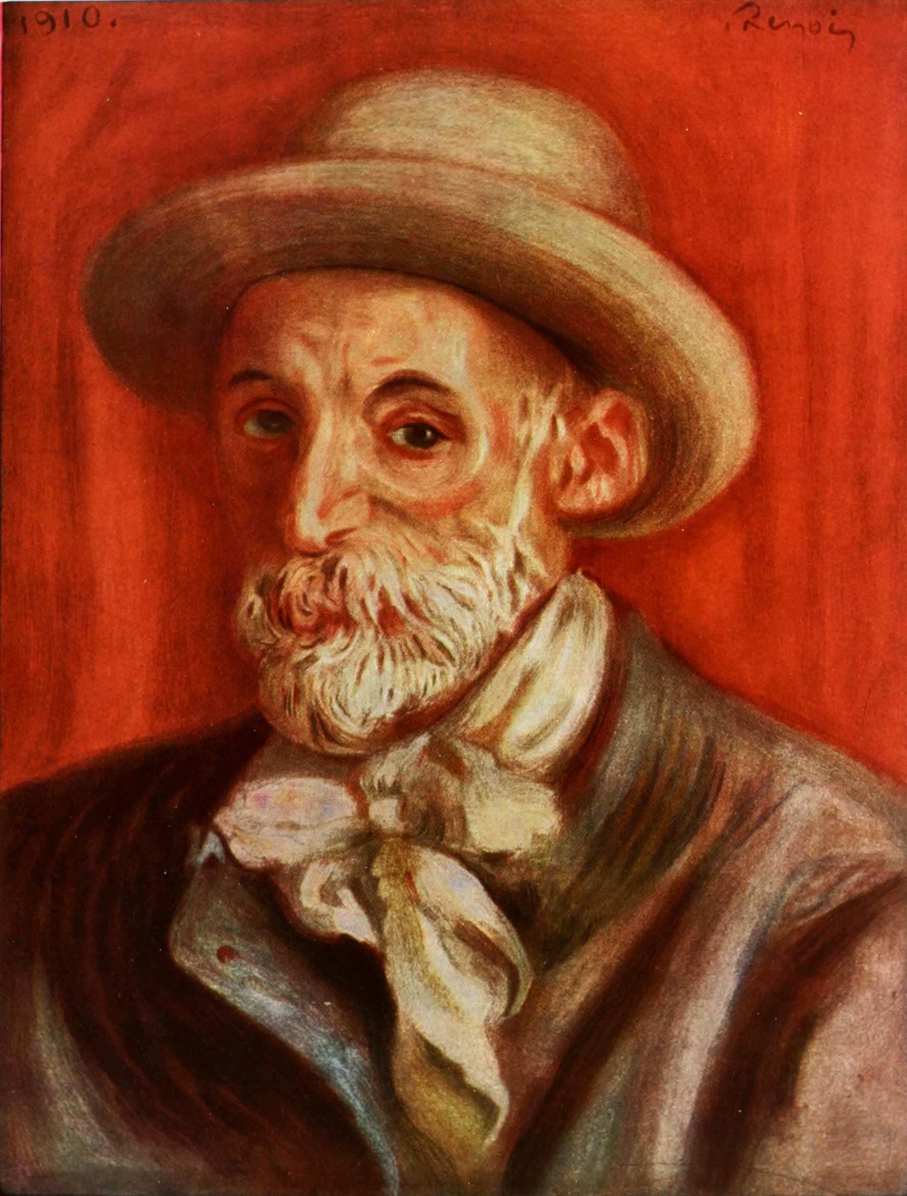 Pierre-Auguste Renoir, Self-Portrait. 1910. 18" x 15". From Renoir, by Bruno F. Schneider, p. 80. Copied with a Canon EOS Digital Rebel with EF 50mm f/1.8 mounted on a copy stand at the UConn art department. ISO 100, f/8, 1/30s. The image was then cropped and level-adjusted with Gimp and saved with a JPEG quality of 0.92.